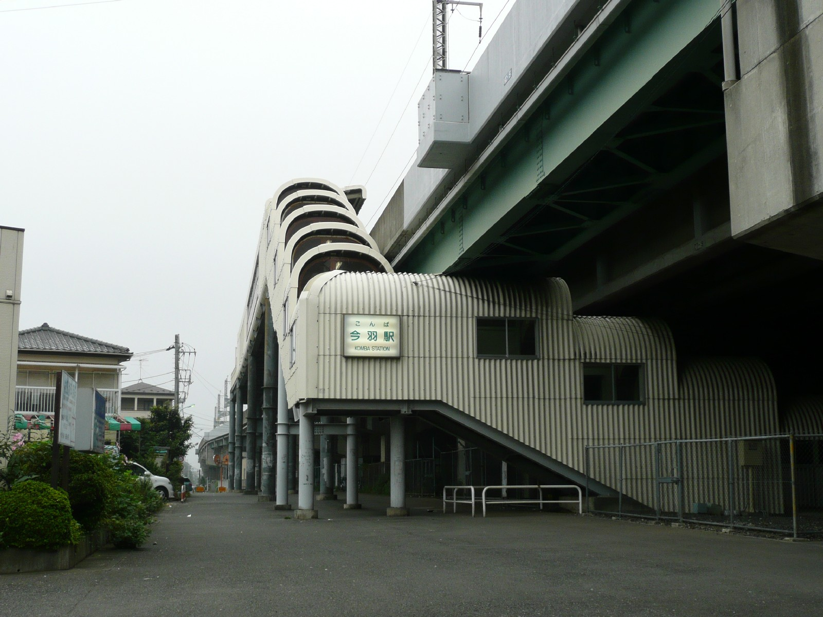 Komba Station